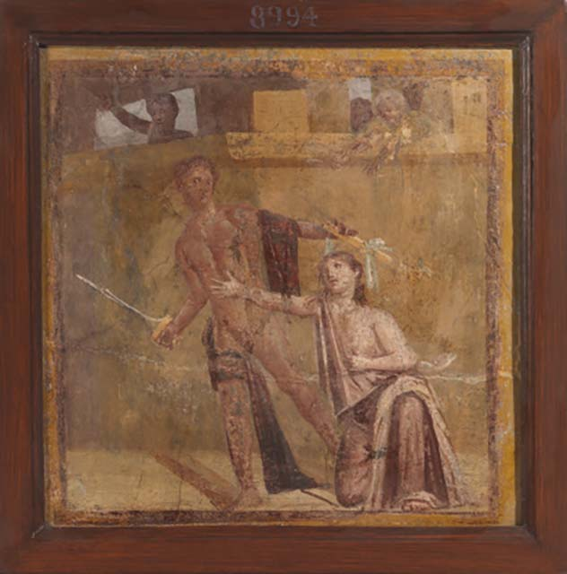 VII.1.25 Pompeii. Exedra 33. Painting of Alcmaeon killing his mother Eriphyle. Pompeii. Casa dei Principi di Russia, Second entrance to VII.1.47 House of Siricus. (Strada Stabiana 57) Now in Naples Archaeological Museum. Inventory number 8994.